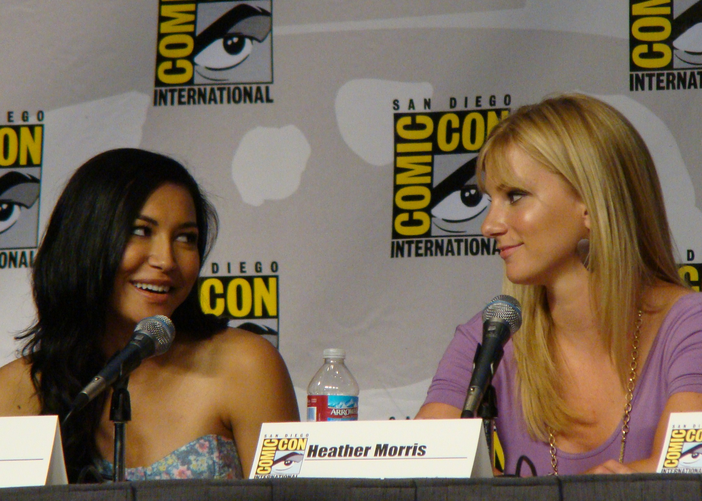 Naya Rivera & Heather Morris